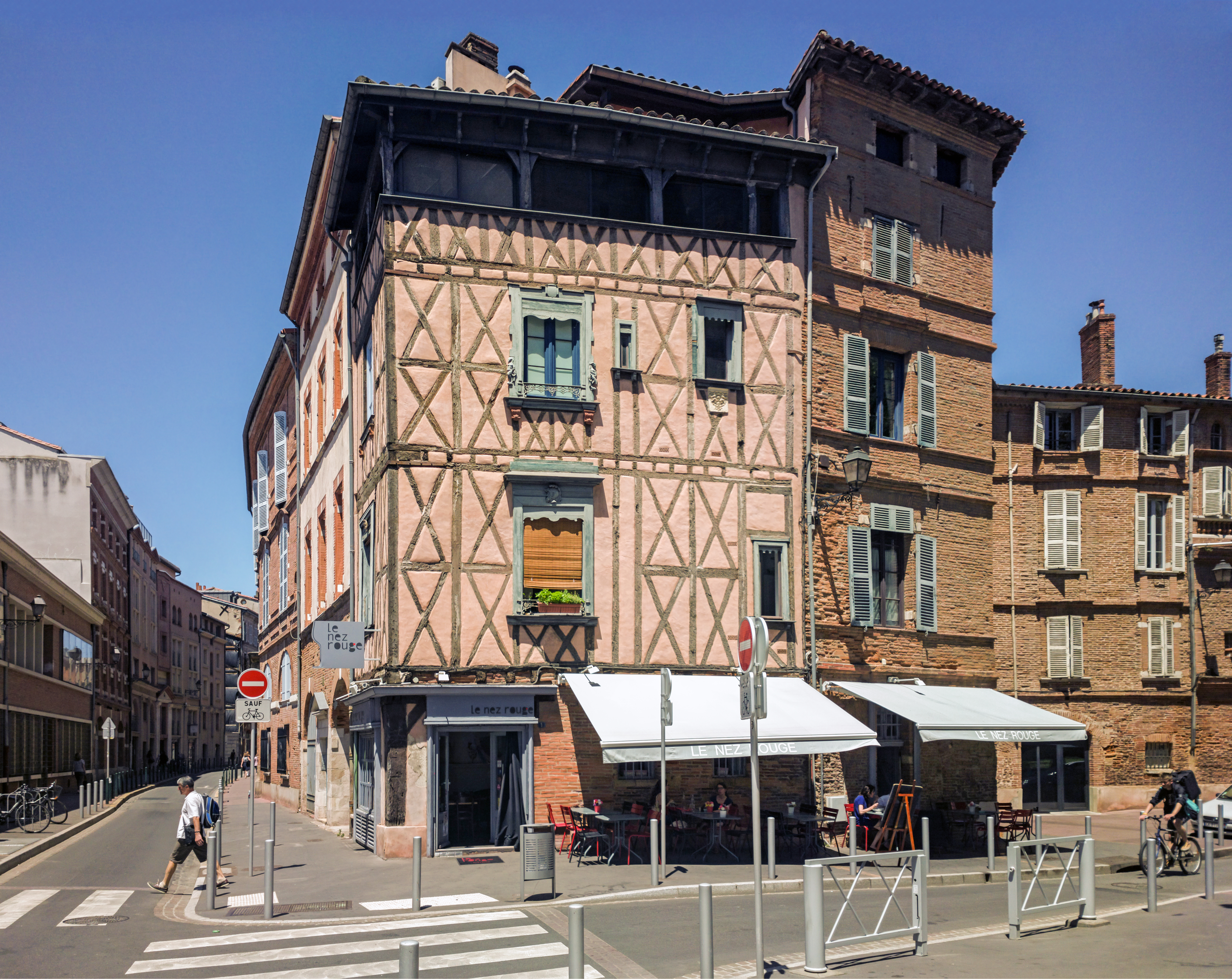 1, Henri-de-Gorsse Street in Toulouse. House of the notary Jean Dumas (beginning of the fifteenth century). This half-timbered house, built for the notary Jean Dumas, retains carved woodwork (fauns, goats, helmeted knight). It was renovated in 1981.